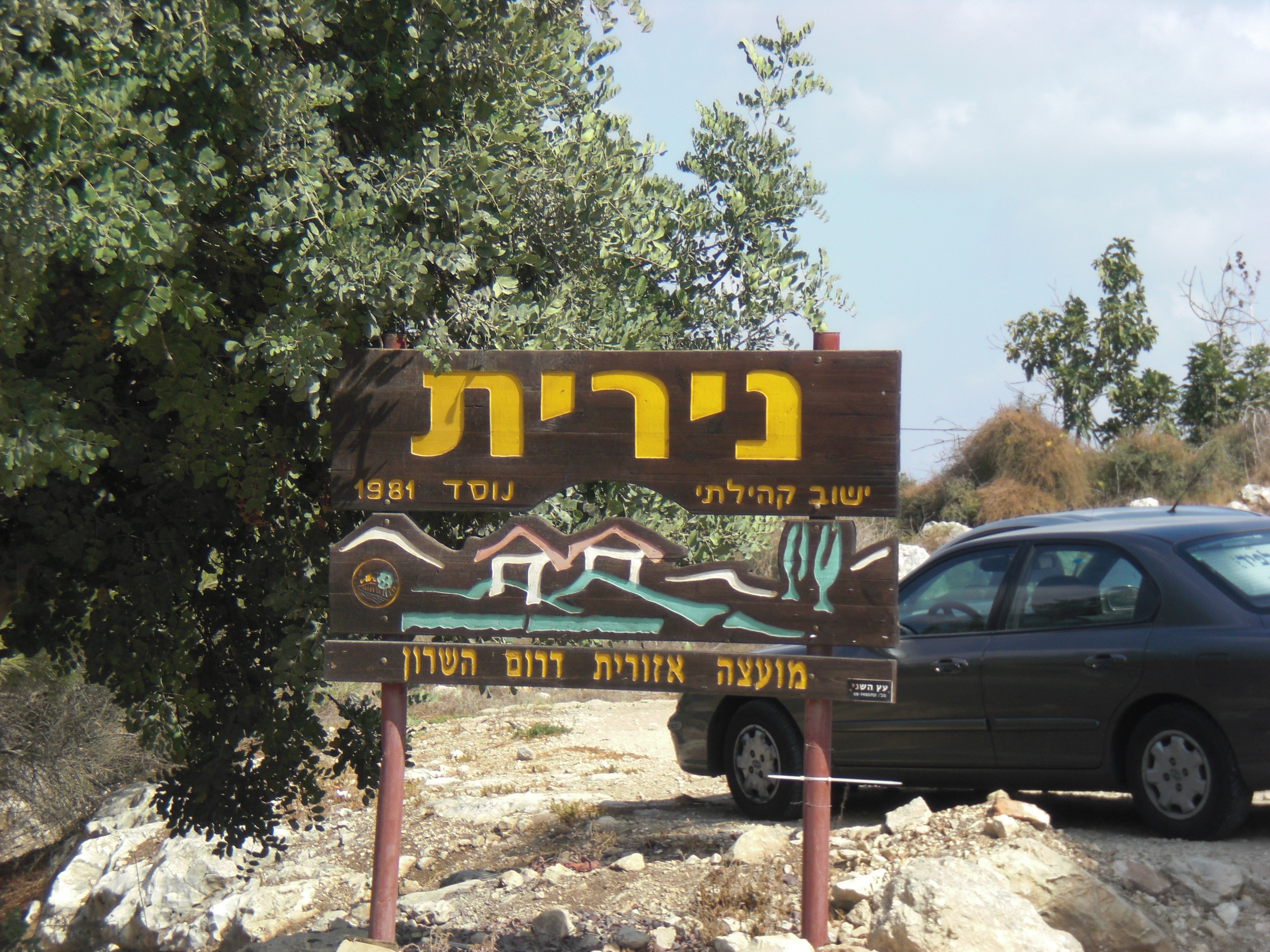 Enterance sign to Nirit